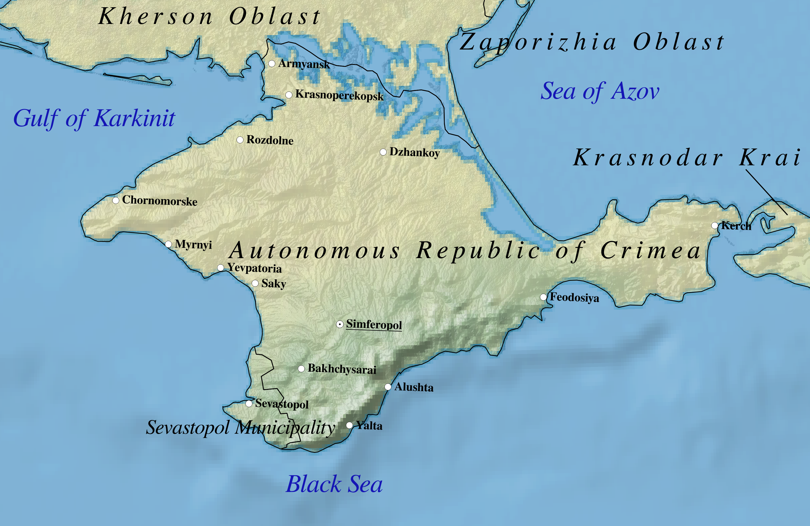 Topographic map of the Crimea peninsula. Scale 1:1500000. Hillshading: SRTM4, Land cover: Natural Earth data, Borders: Natural Earth Data, Location and names of geographic entities: English Wikipedia.